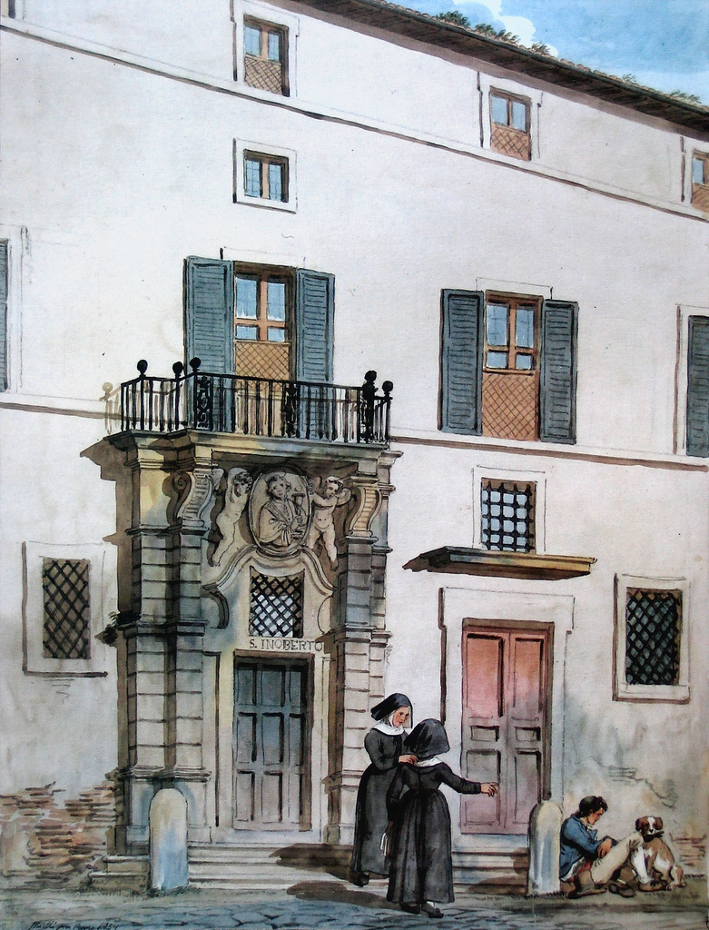 San Norberto all'Esquilino by Achille Pinelli (1836)